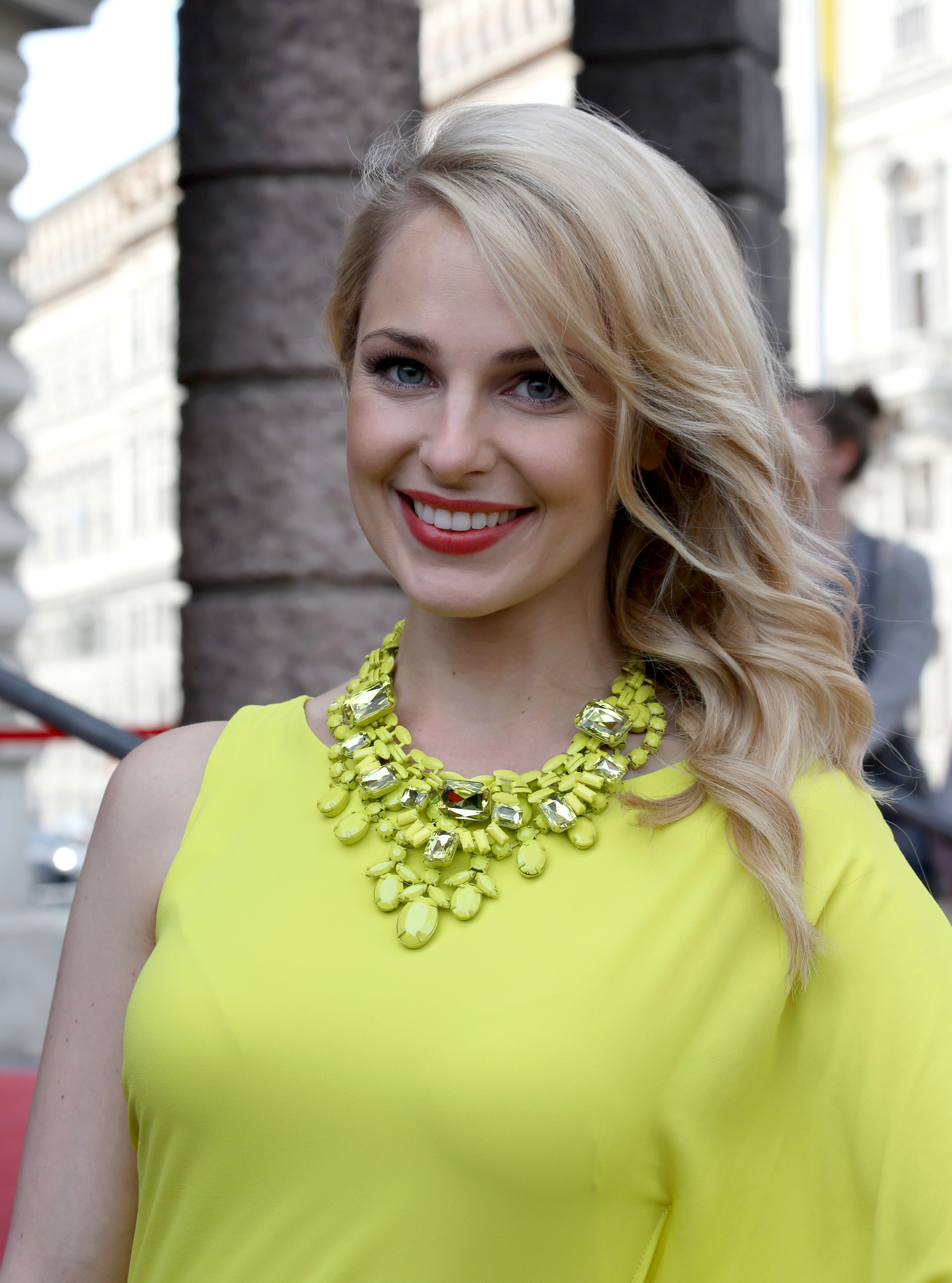 Silvia Schneider at the Amadeus Austrian Music Award 2014 at Volkstheater in Vienna